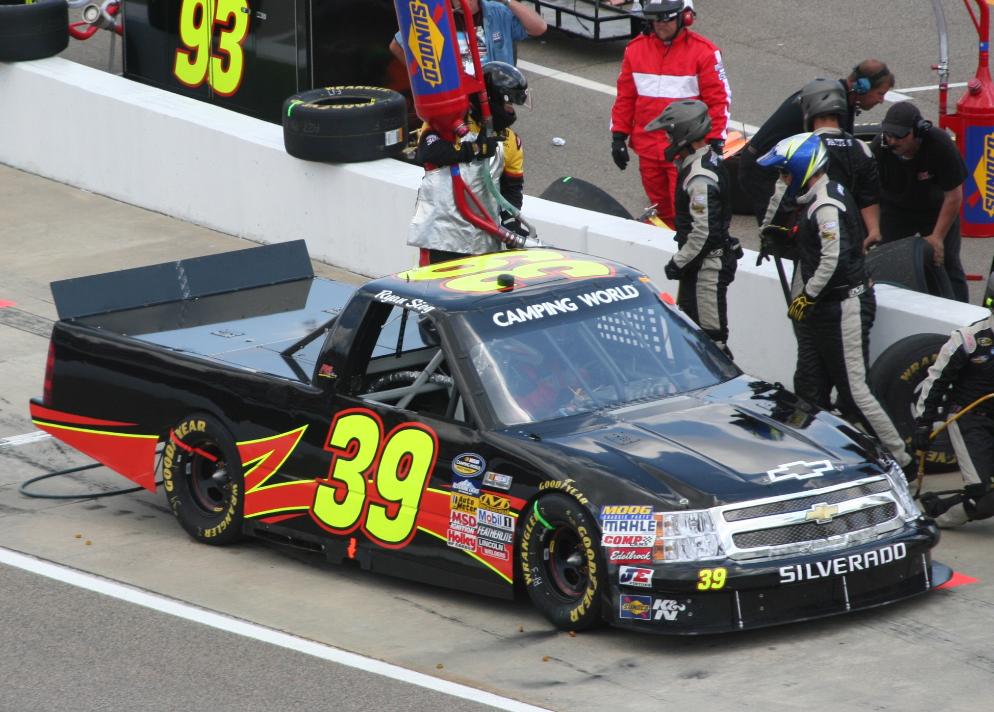 Ryan Sieg pits the No. 39 truck during the 2012 Good Sam Carolina 200 at Rockingham Speedway.